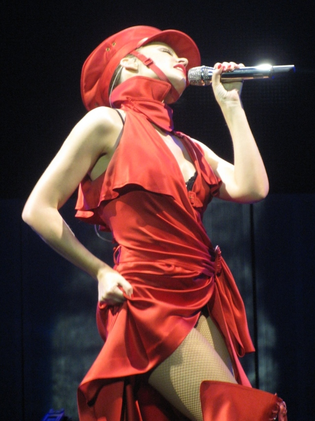 Kylie Minogue performing on the KylieX2008 tour in Auckland, NZ, on the 8th Dec 2008